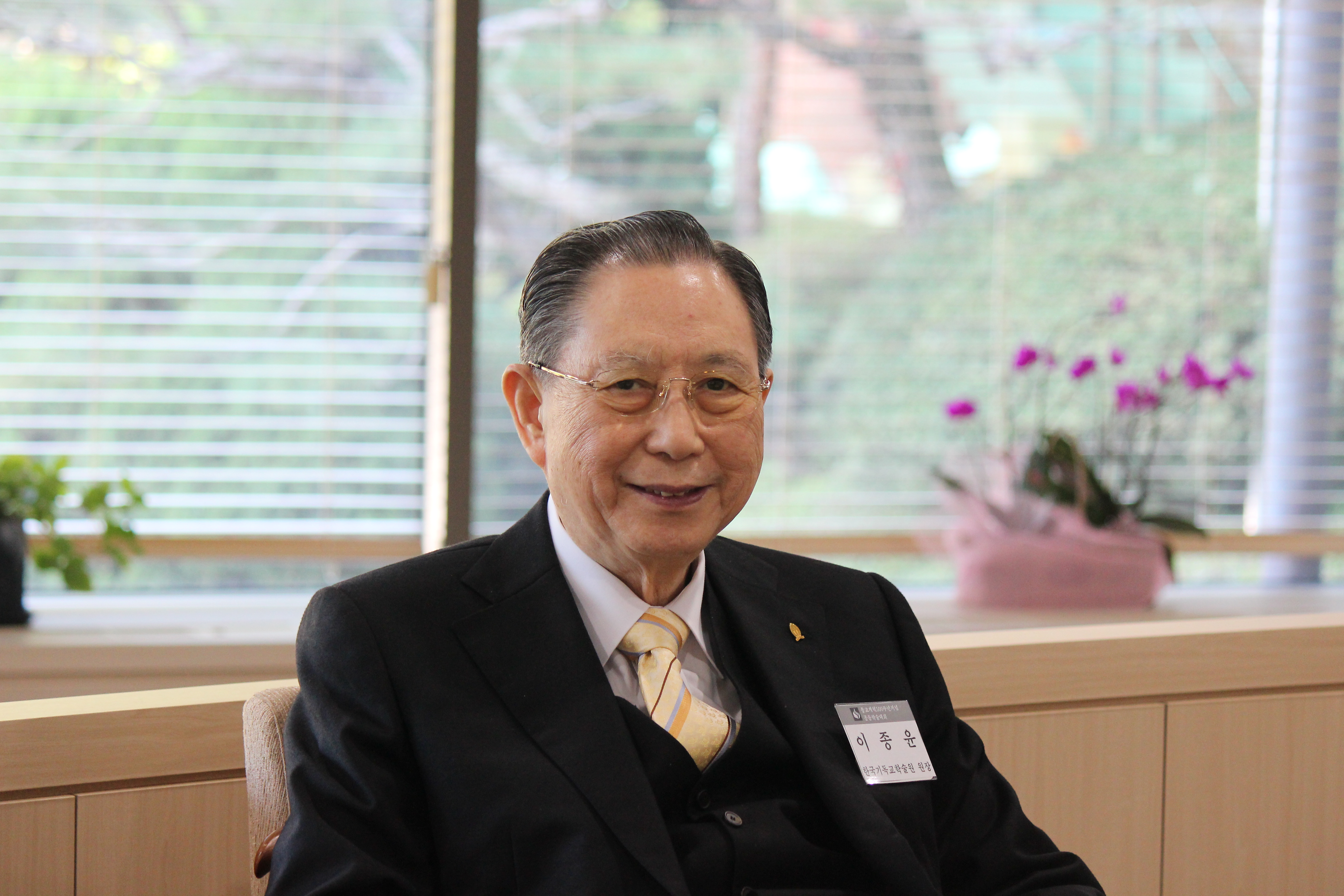 Dr. JongYun-Lee in Somang Prayer House in memory of 500th of Refomation Academic Conference in 20th Octerber in 2017